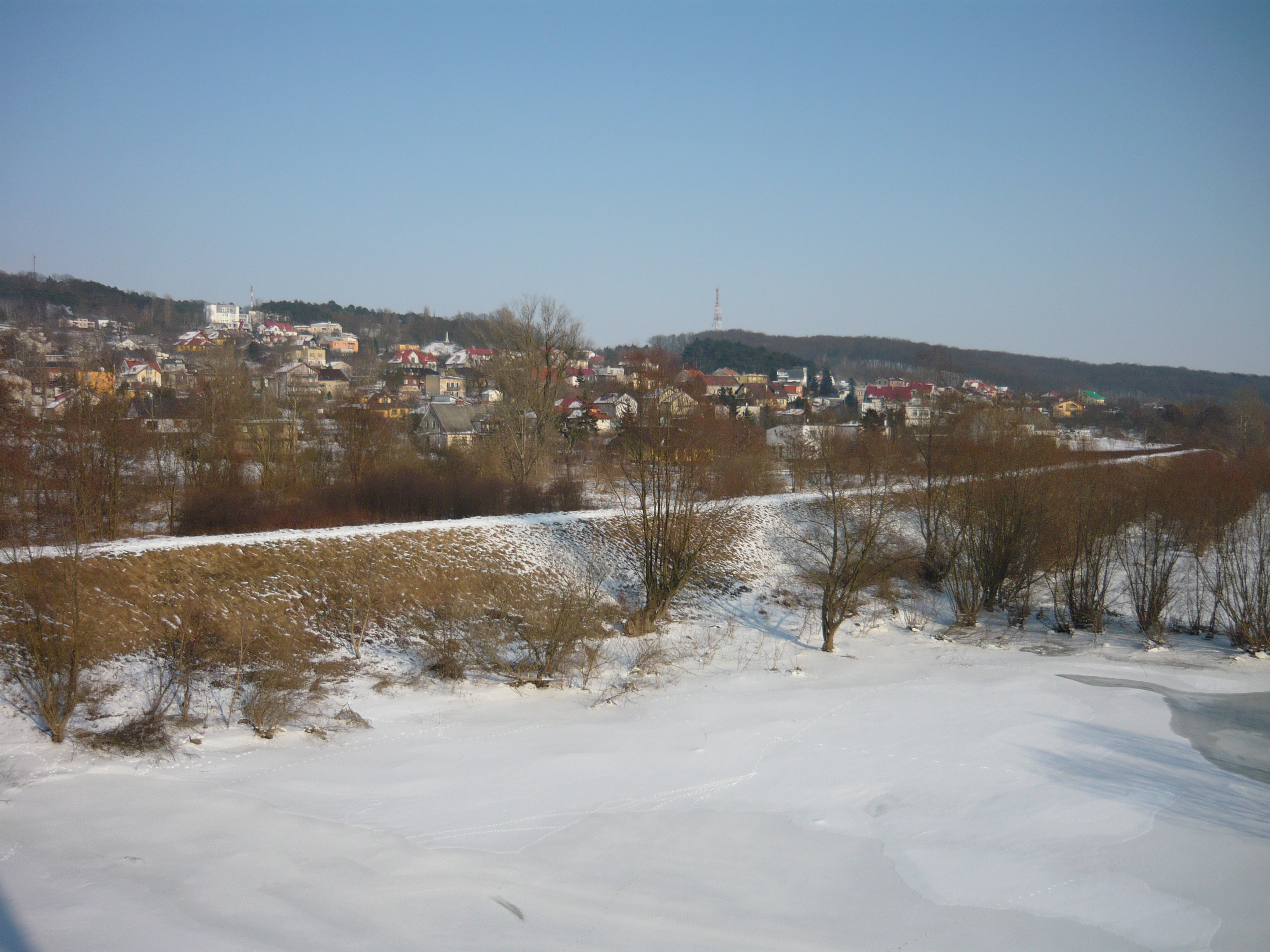 District of city Włocławek - Zawiśle. View from the Śmigły-Rydz's bridge.